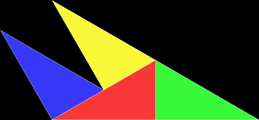 A tetradrafter, or shape created from four 30-60-90° triangles.